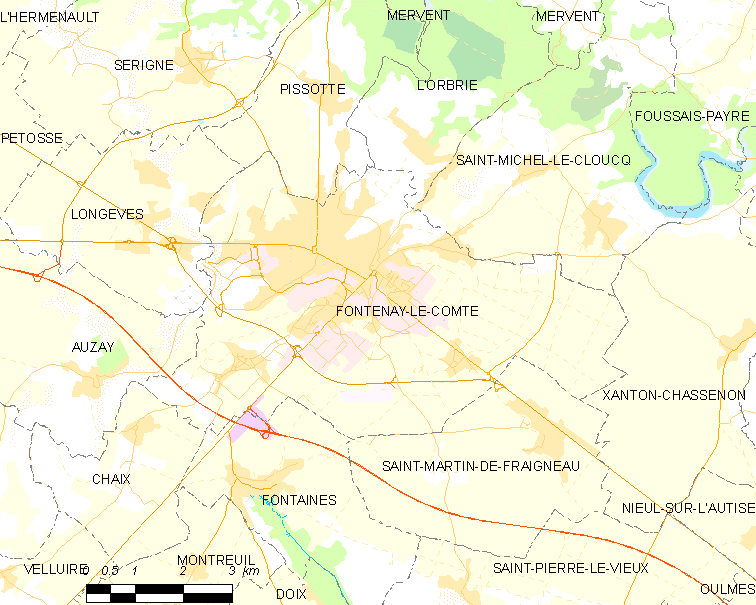 Map of French municipality Fontenay-le-Comte